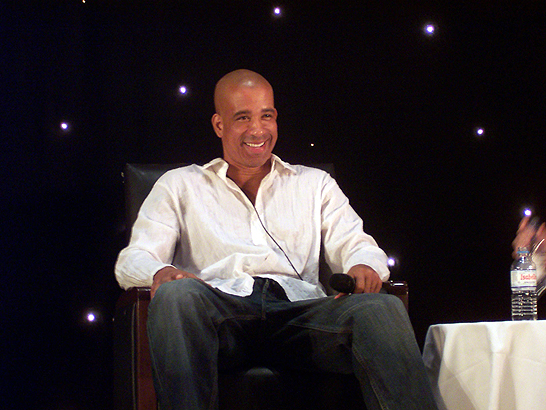 Dorian Gregory in 2006